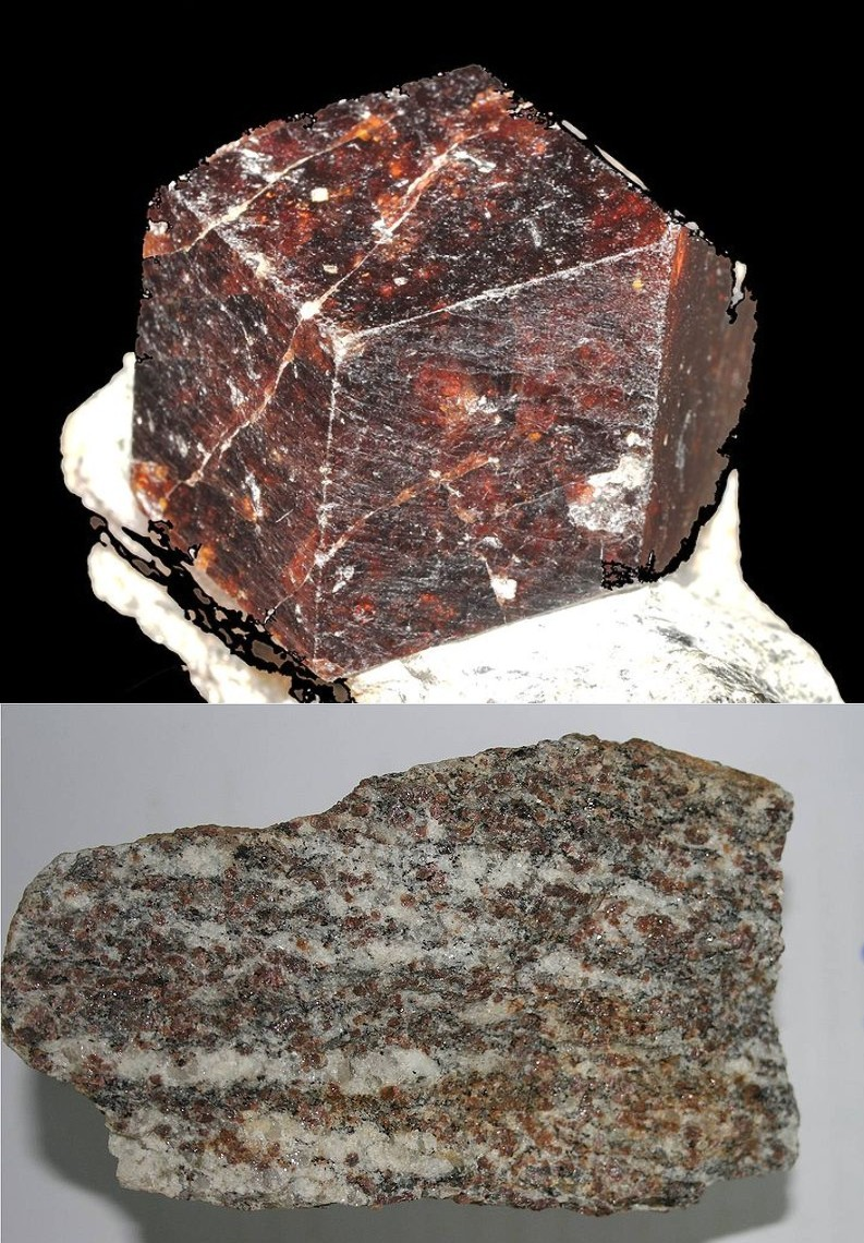 Garnet - rock-forming mineral of Gneiss